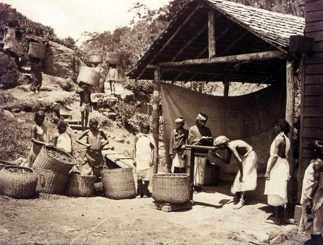 Bringing in the tea leaf, Darjeeling. Albumen print